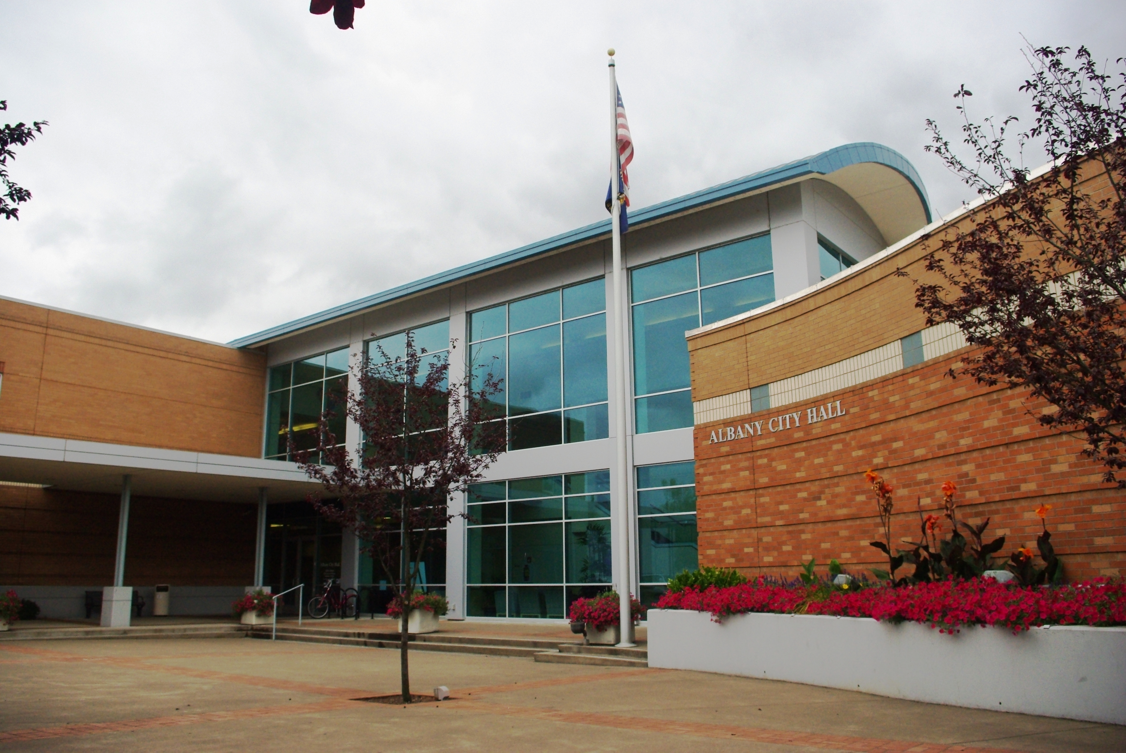 City Hall of Albany, Oregon, USA